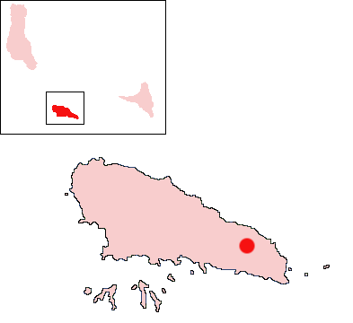 Kangani, Mohéli, Comoros Location Map; created with the GIMP. Made by User:Acntx.